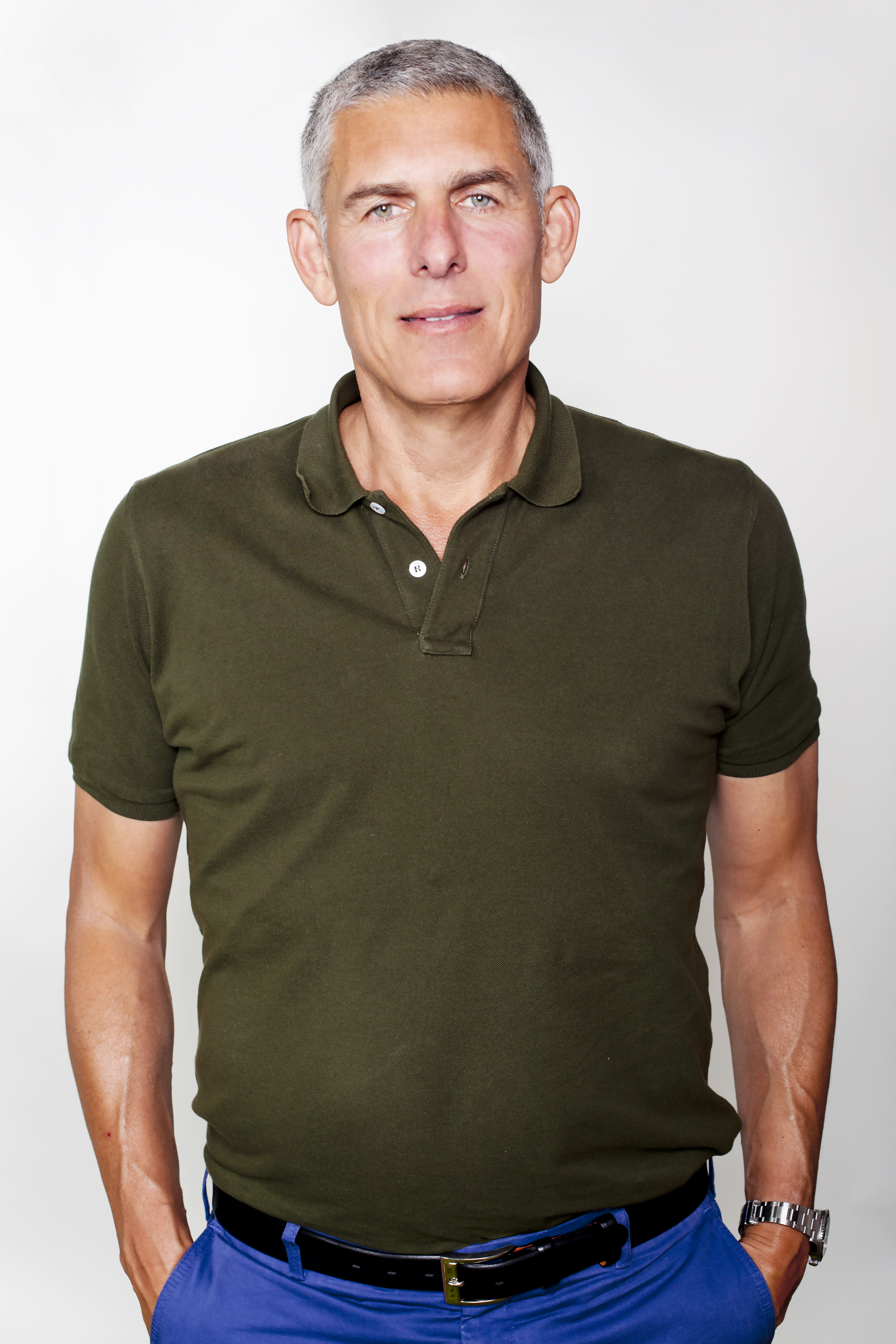 Lyor Cohen Headshot